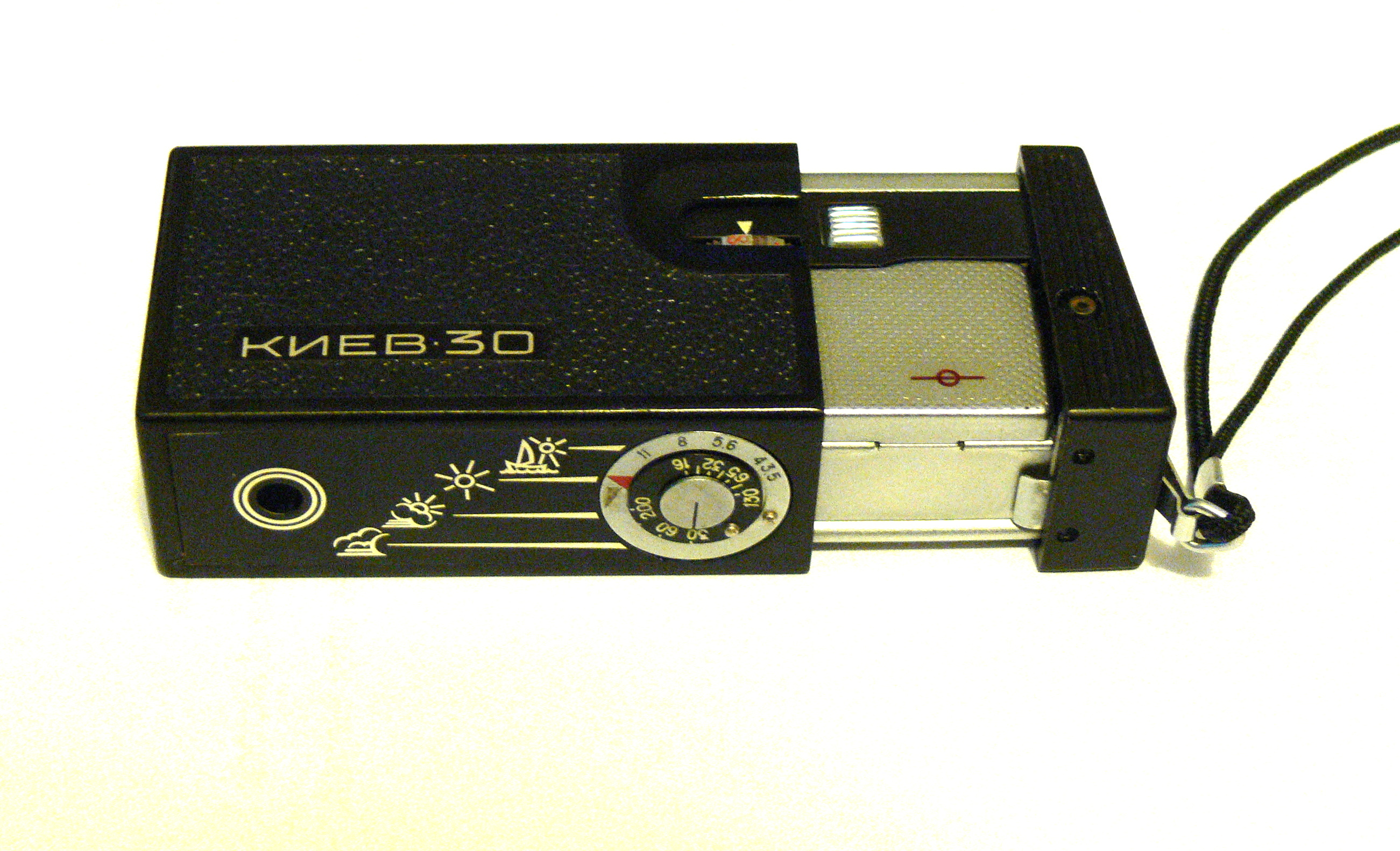 Kiev-30 focusing dial and shutter release